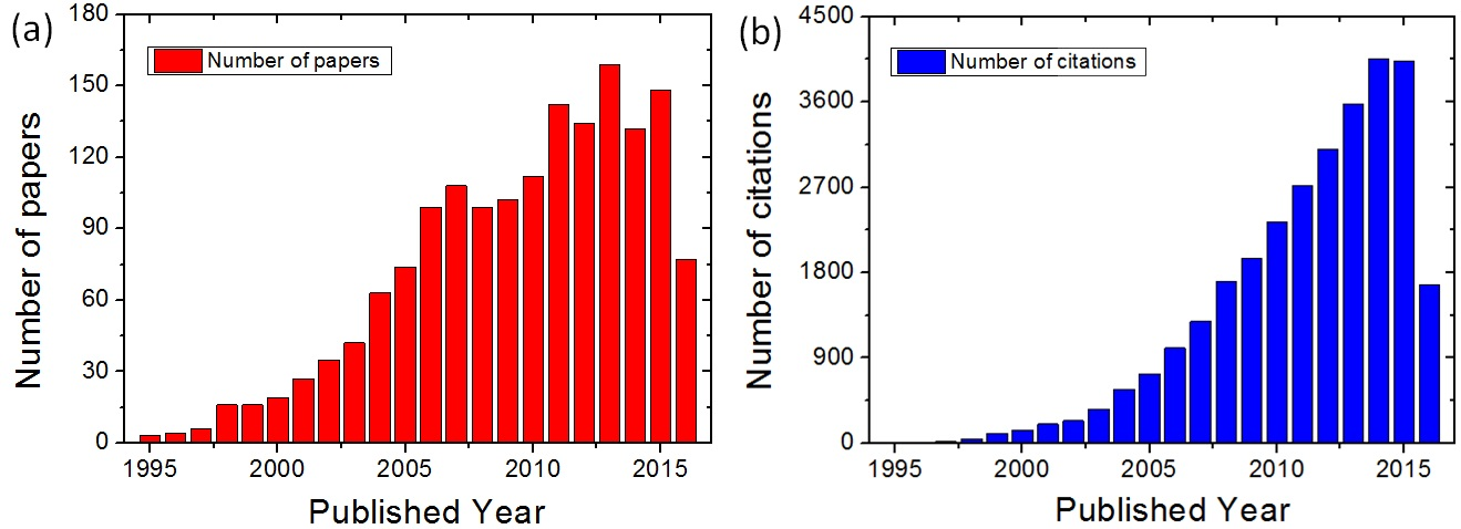 Evolution of publications and citations with CAFM